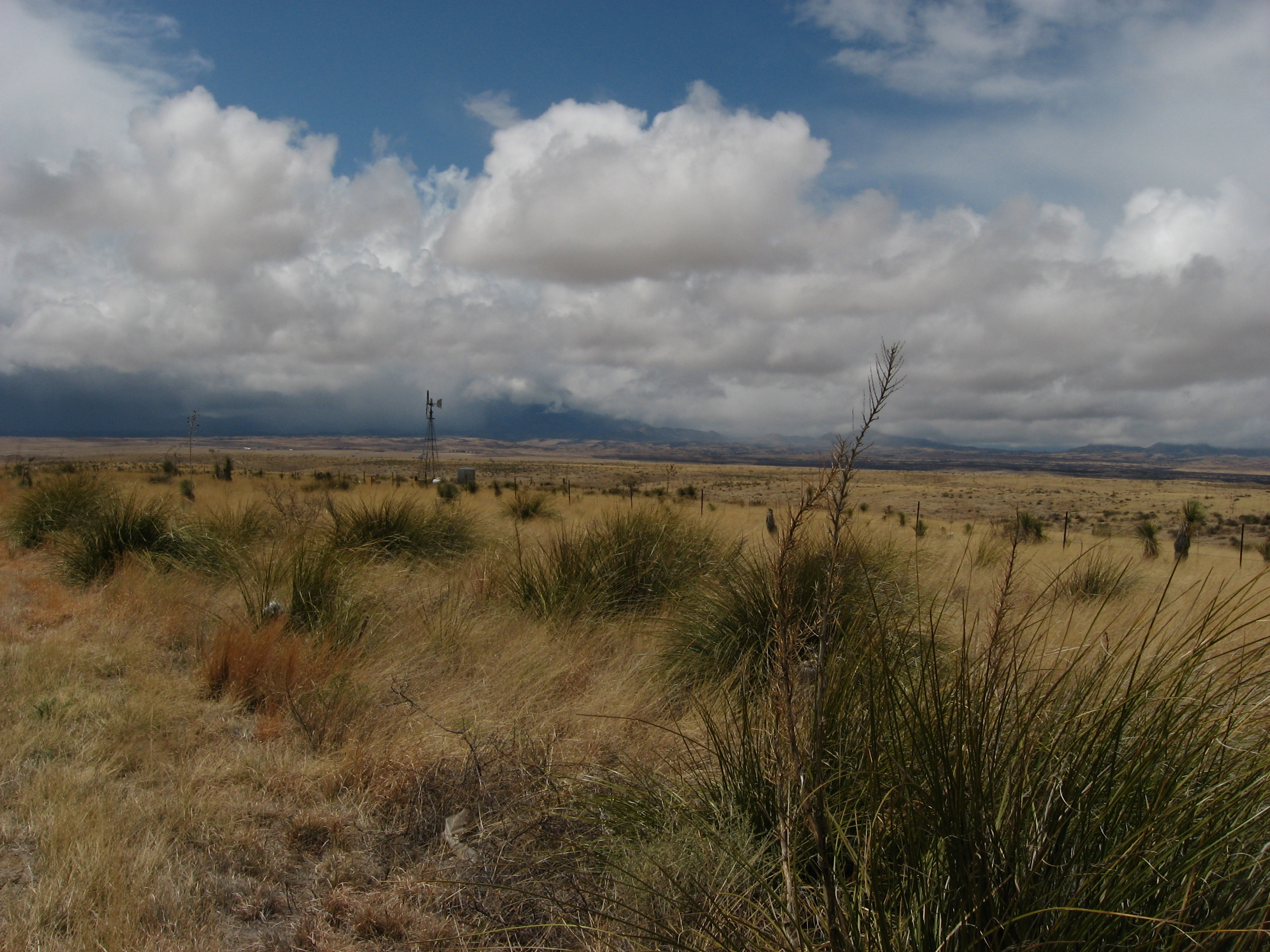 State Route 82 (SR 82) is an east-west state highway in southern Arizona. The western terminus of SR 82 is located at its junction with Business Loop 19 (Grand Avenue) in Nogales and its eastern terminus at its junction with State Route 80 just north of Tombstone. Between Nogales and Patagonia, it is also known as Patagonia Road and Patagonia Highway. Other than the aforementioned locations, State Route 82 also travels through Sonoita and Whetstone, and is one of the few major east-west highways in its service area. The highway also serves as access to Patagonia Lake State Park, Nogales International Airport, wineries of Southern Arizona near Elgin and Sonoita and followed an abandoned rail line between Patagonia and Tombstone.